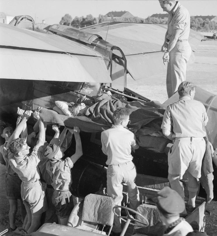 RAF ground crew and American medical orderlies remove a stretcher bearing Captain John Giannaris, US Army, from the rear cockpit of a Westland Lysander Mark III(SD) of No. 148 (Special Duties) Squadron RAF, at an airfield in Italy following his evacuation from German-occupied Greece. Giannaris, a Greek speaking officer of the US Army, had led a 22 man Greek guerilla outfit until he stepped on a German Teller mine, nearly ending his life. He was evacuated back to the States and eventually recovered from his wounds.